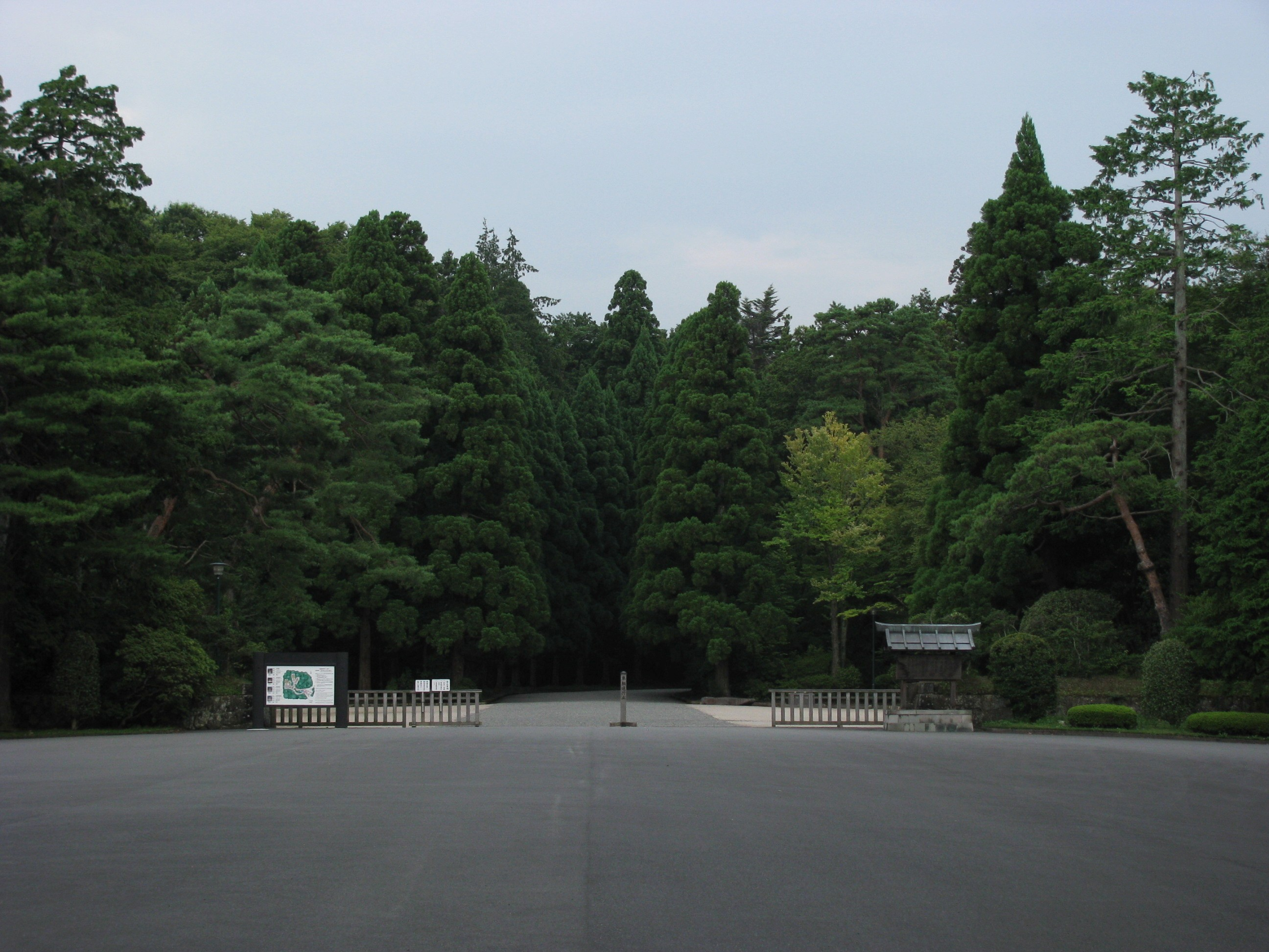 The Musashi-ryo is the tombs of former Tennō. This location is entrance of Musashi-ryo in Nagabusa-machi, Hachiōji, Tokyo, Japan.